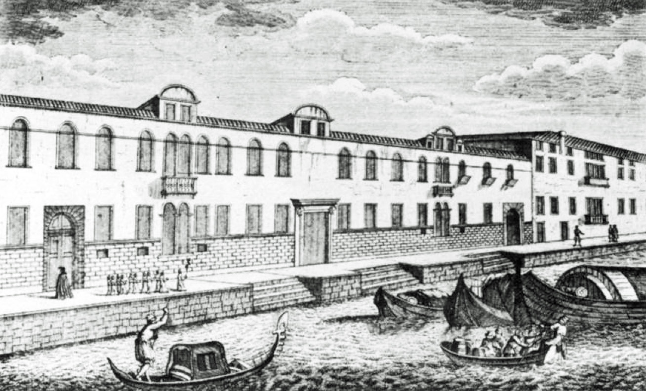 Ospedale degli Incurabile on the Zattere, Venice – 18th century drawing